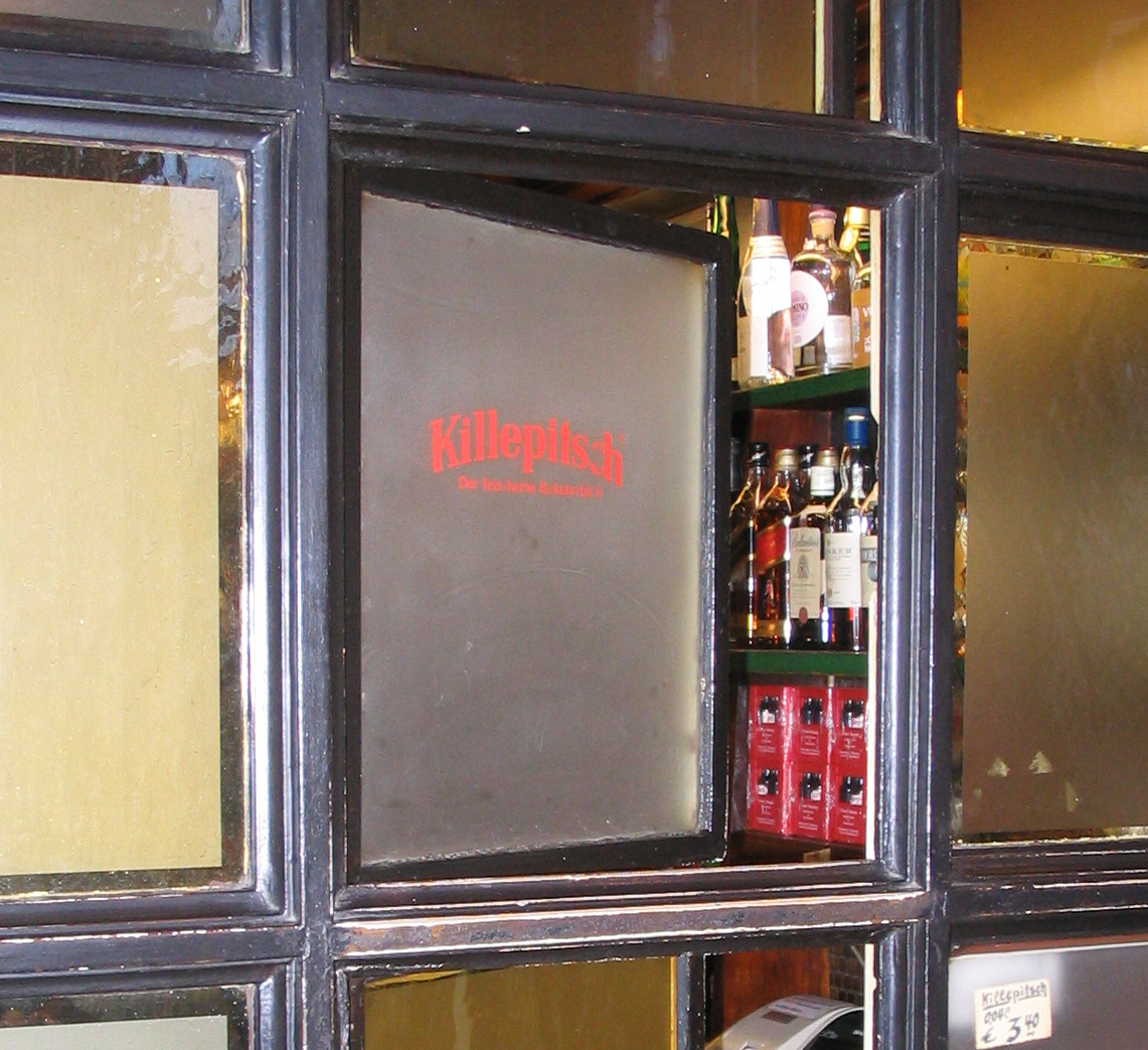 House Flinger Straße 1 in Düsseldorf-Altstadt, Germany